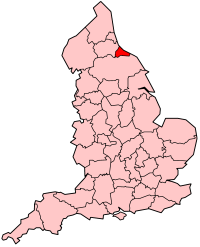 Former administrative county of England